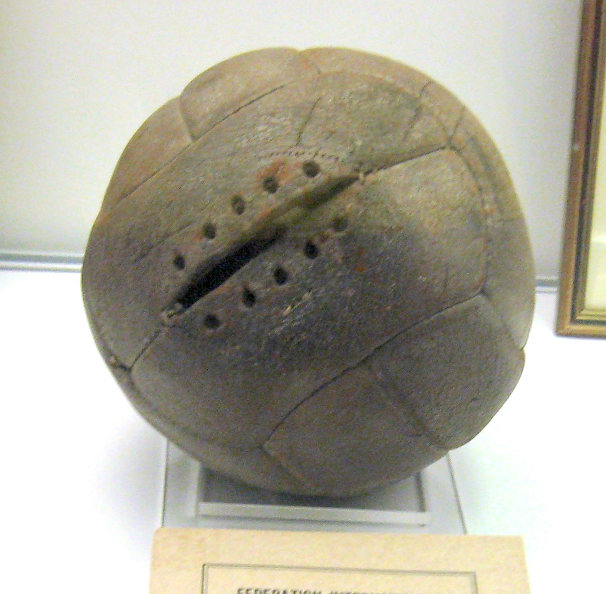 Football used in the 1930 World Cup Final on display at the National Football Museum, Preston. Due to a dispute between the teams, two balls were used in the final, one in each half. This ball, chosen by the Argentinian team, was used in the first half.